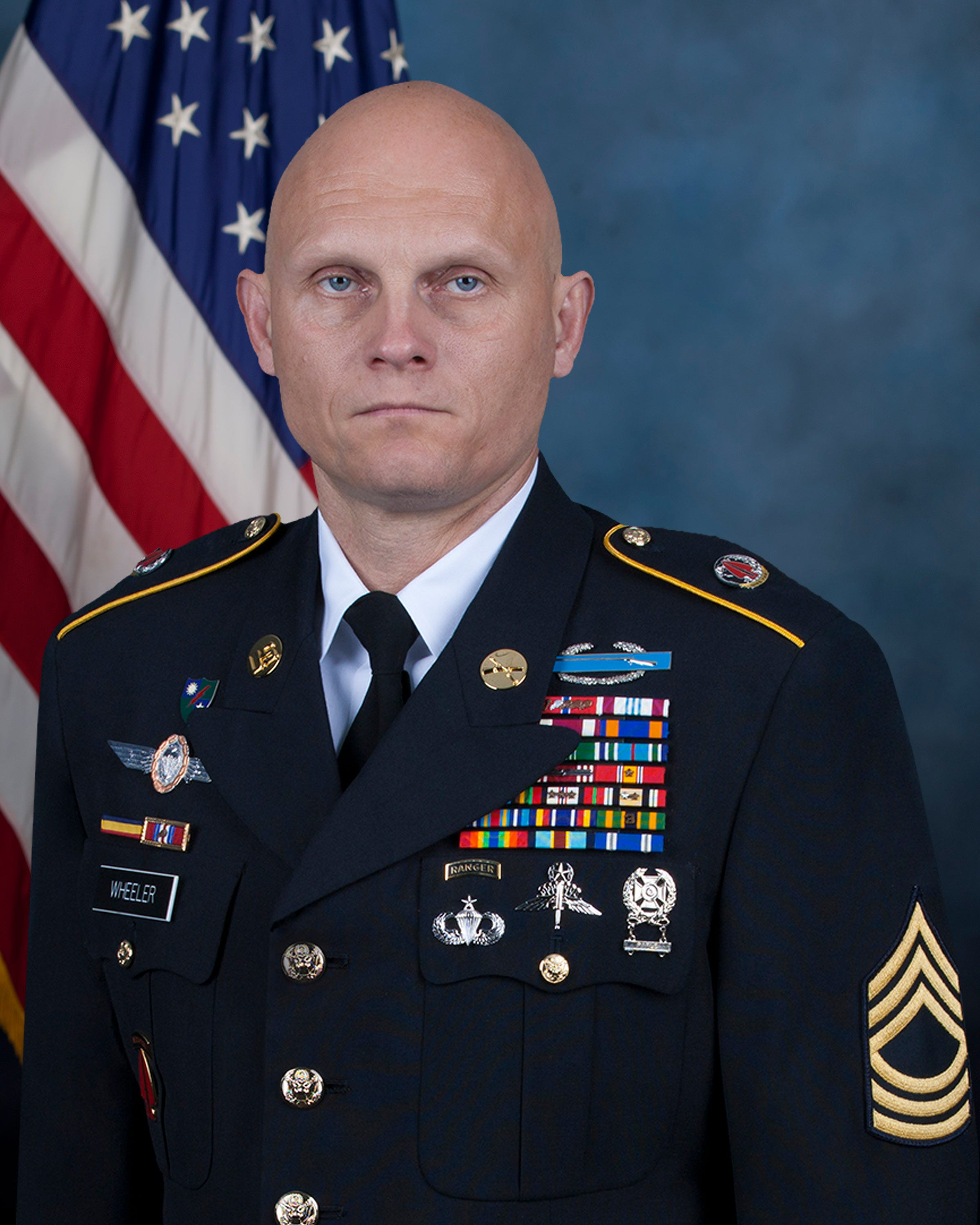 Official portrait of Master Sgt. Joshua L. Wheeler